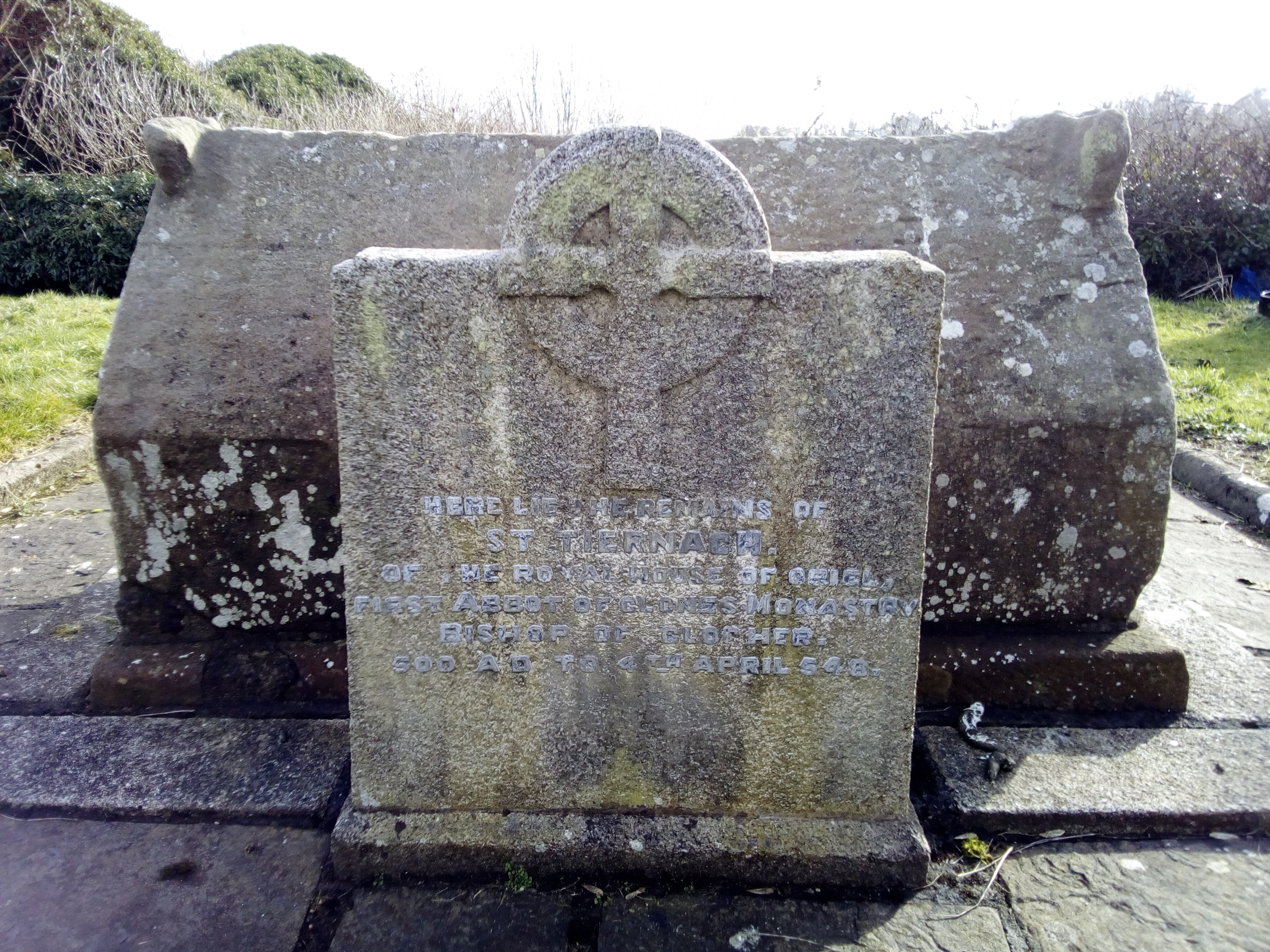 The medieval stone sarcophagus of St Tigernach, along with a modern inscribed stone giving information about the saint.